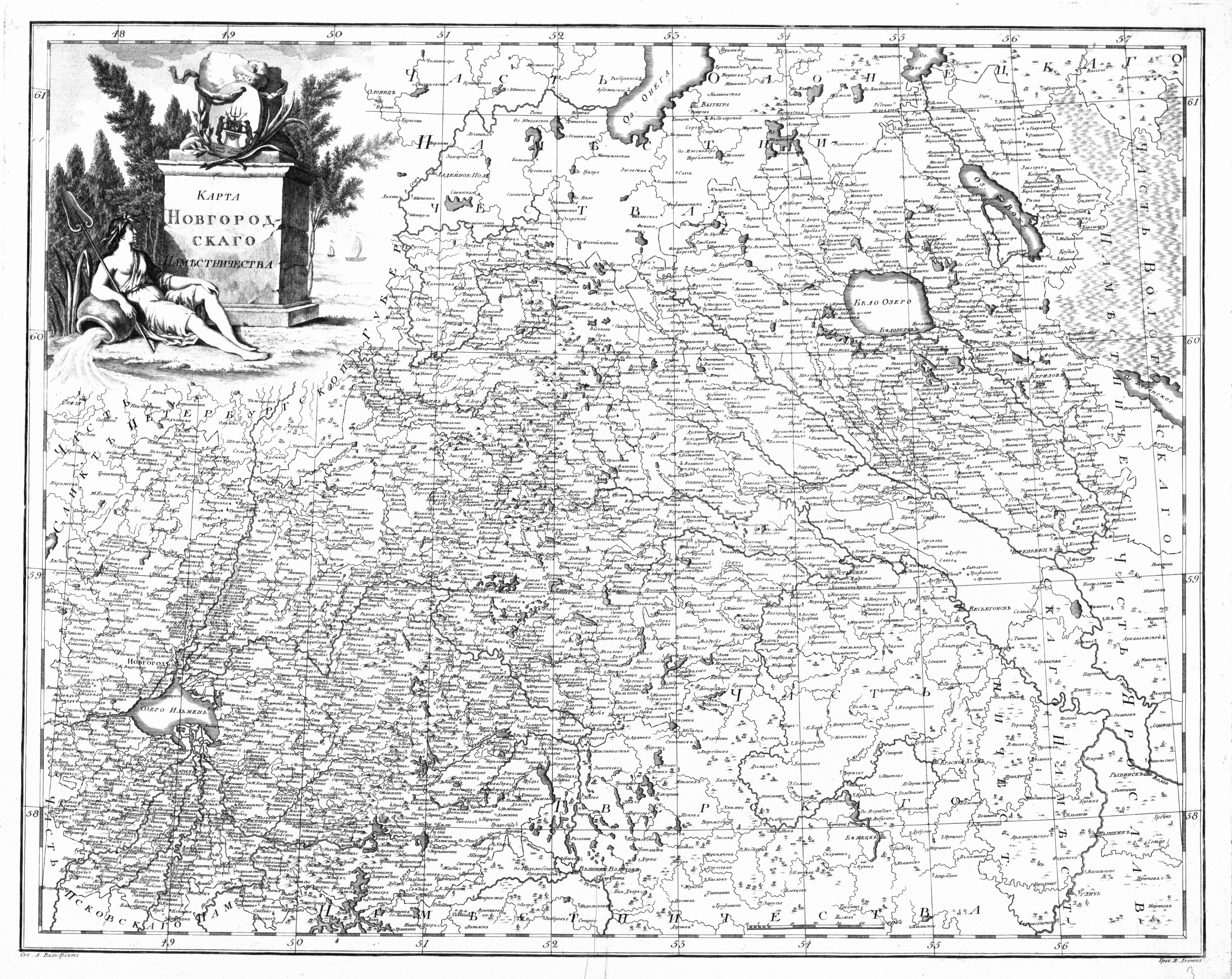 Map of Novgorod Namestnichestvo (sheet 3) from official Atlas of the Russian Empire (1792).